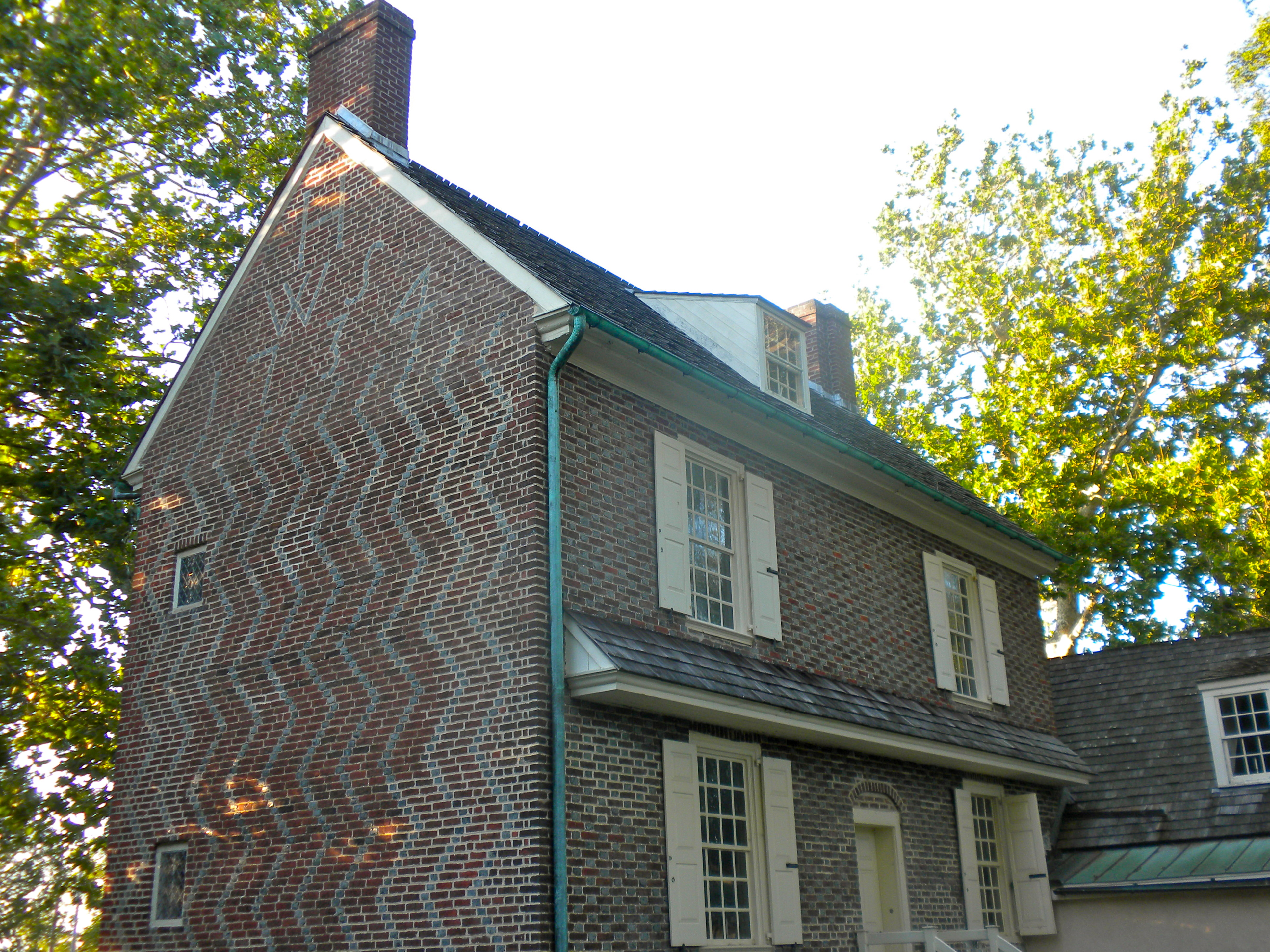 Hancock House on NRHP since December 18, 1970. At Rte. 49 and Front St., Lower Alloways Creek Township (Hancock Bridge). Site of a massacre by the British during the American Revolution